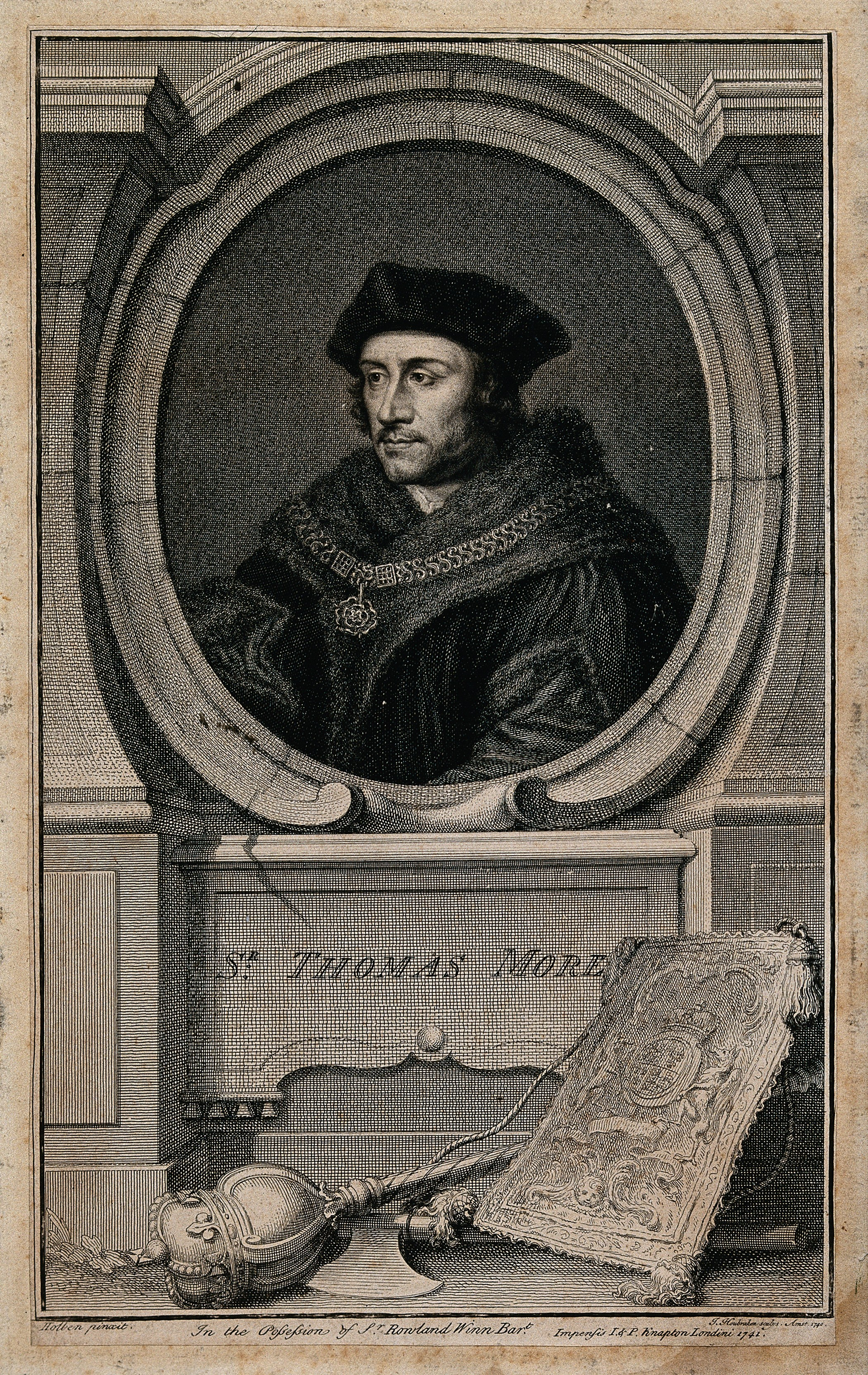 Sir Thomas More (1478 - 1535), English Lawyer, author and statesman. His refusal to accept Henry VIII as supreme head of the Church of England led to his eventual execution on 6th July 1535. Iconographic Collections Keywords: Thomas More; Hans Holbein